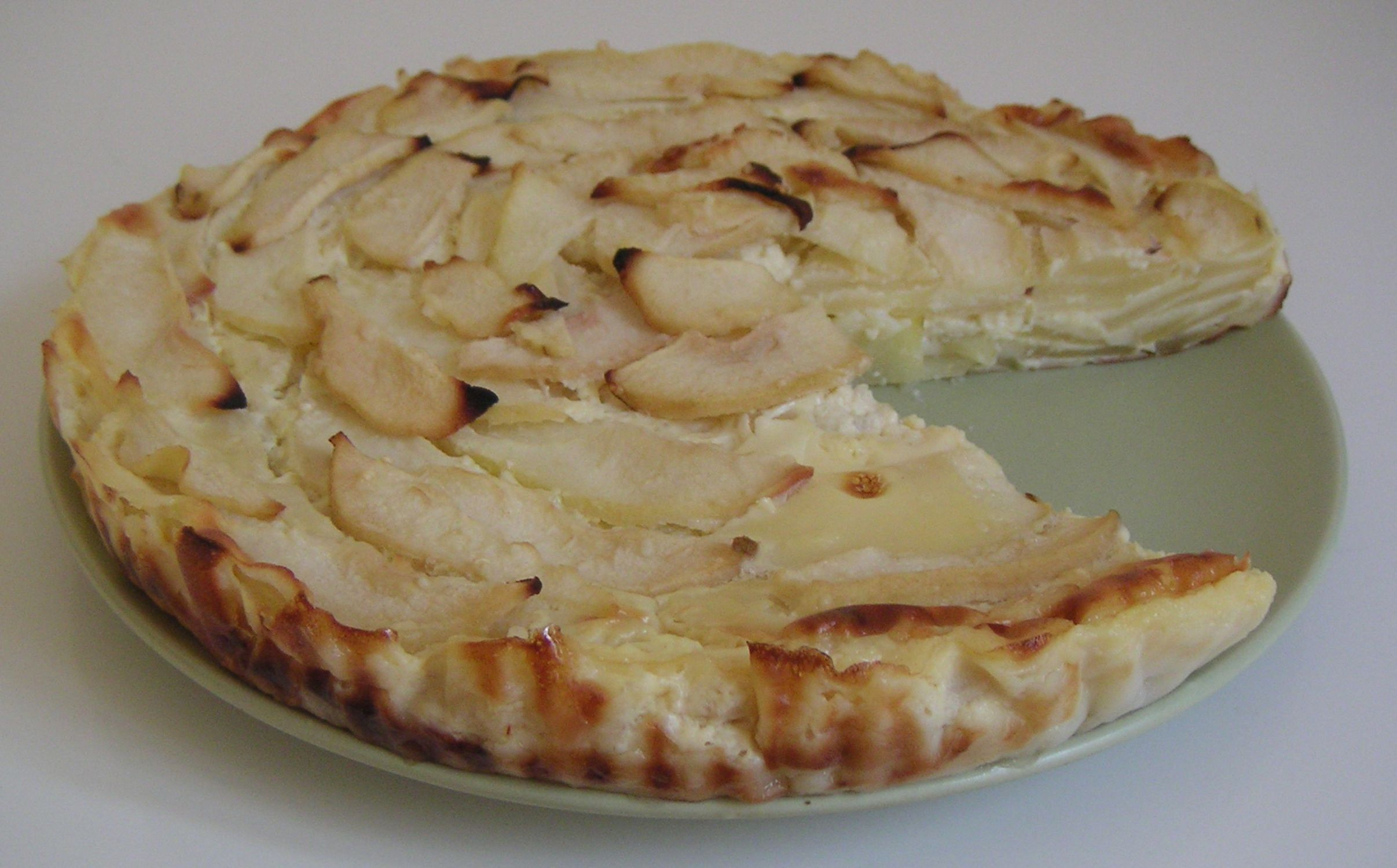 "Gargulló" is an occitan pie